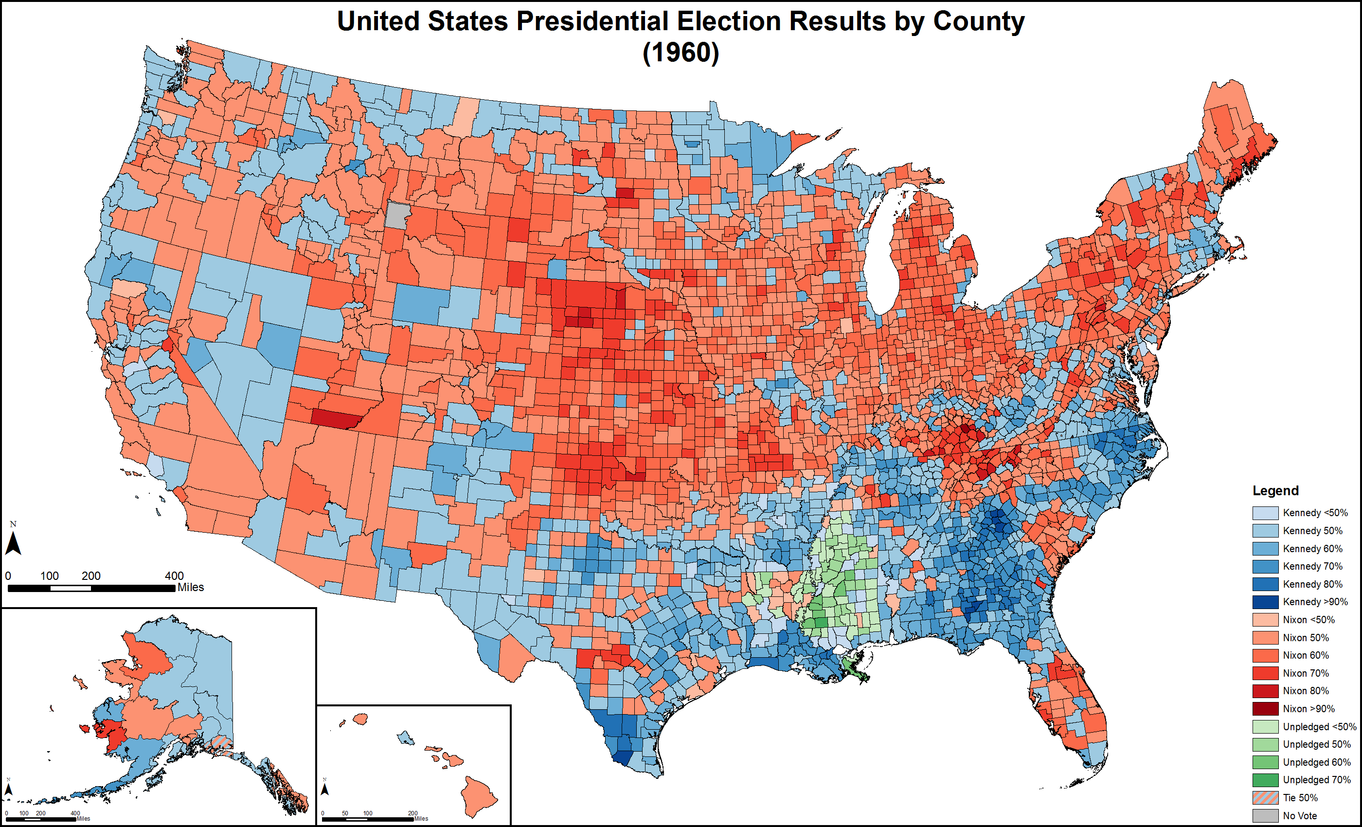 Presidential election results by county (1960). Colors based on Colorbrewer 2.0.